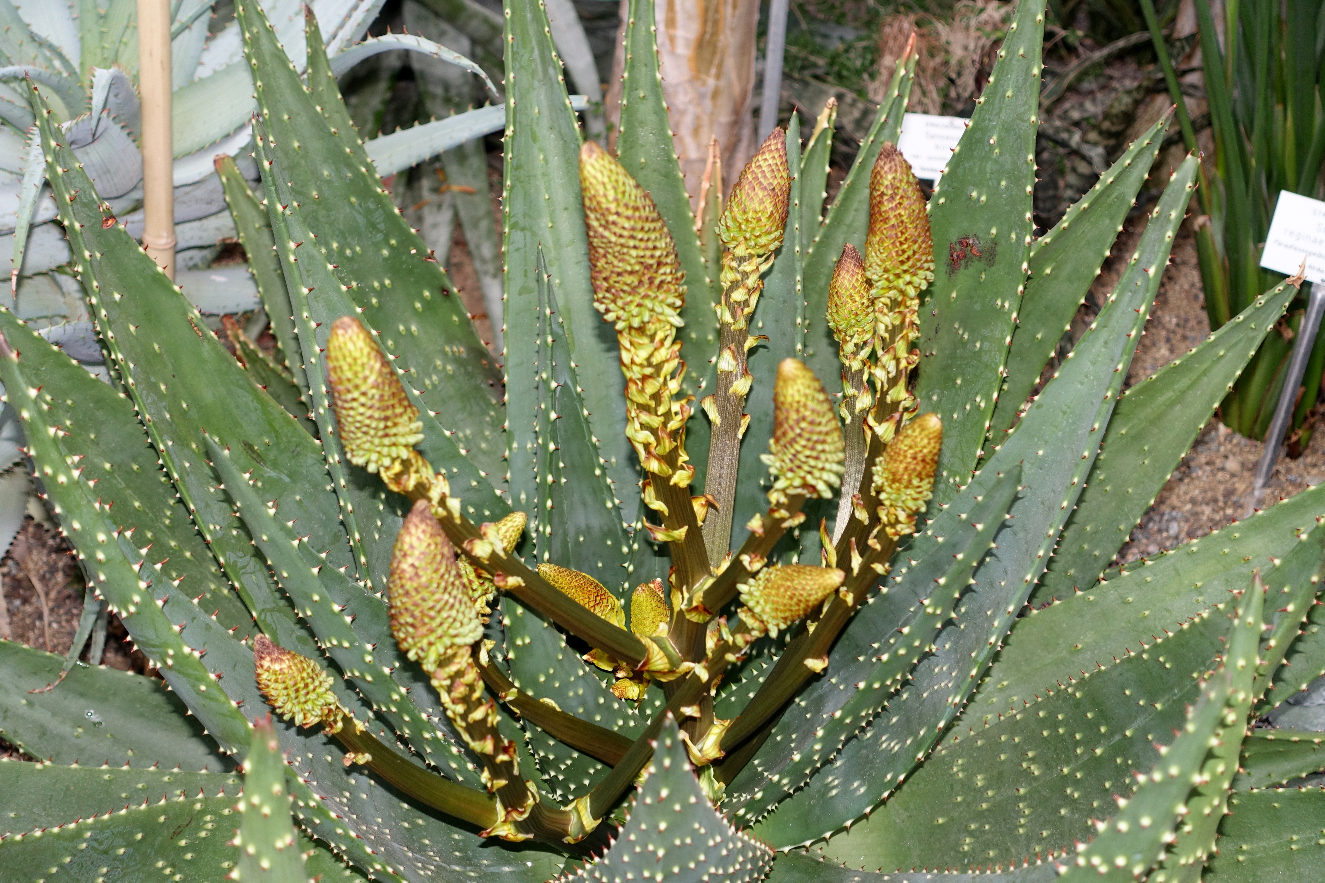 Botanical specimen in the Botanischer Garten - Heidelberg, Germany.